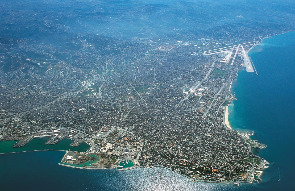 View for Beirut , capital of Lebanon from an airplane.